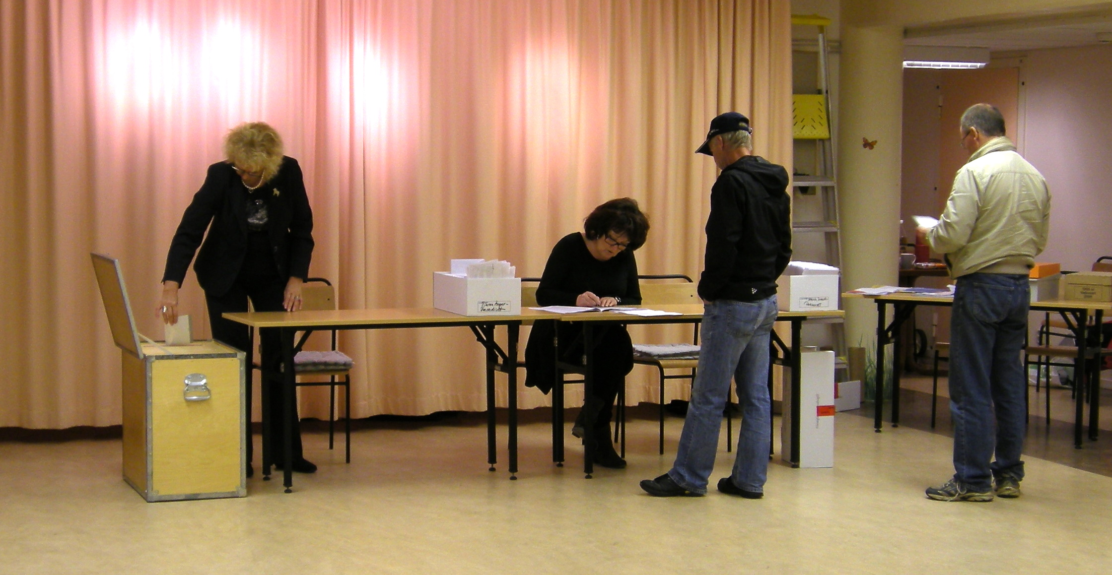 Swedish election 2010.